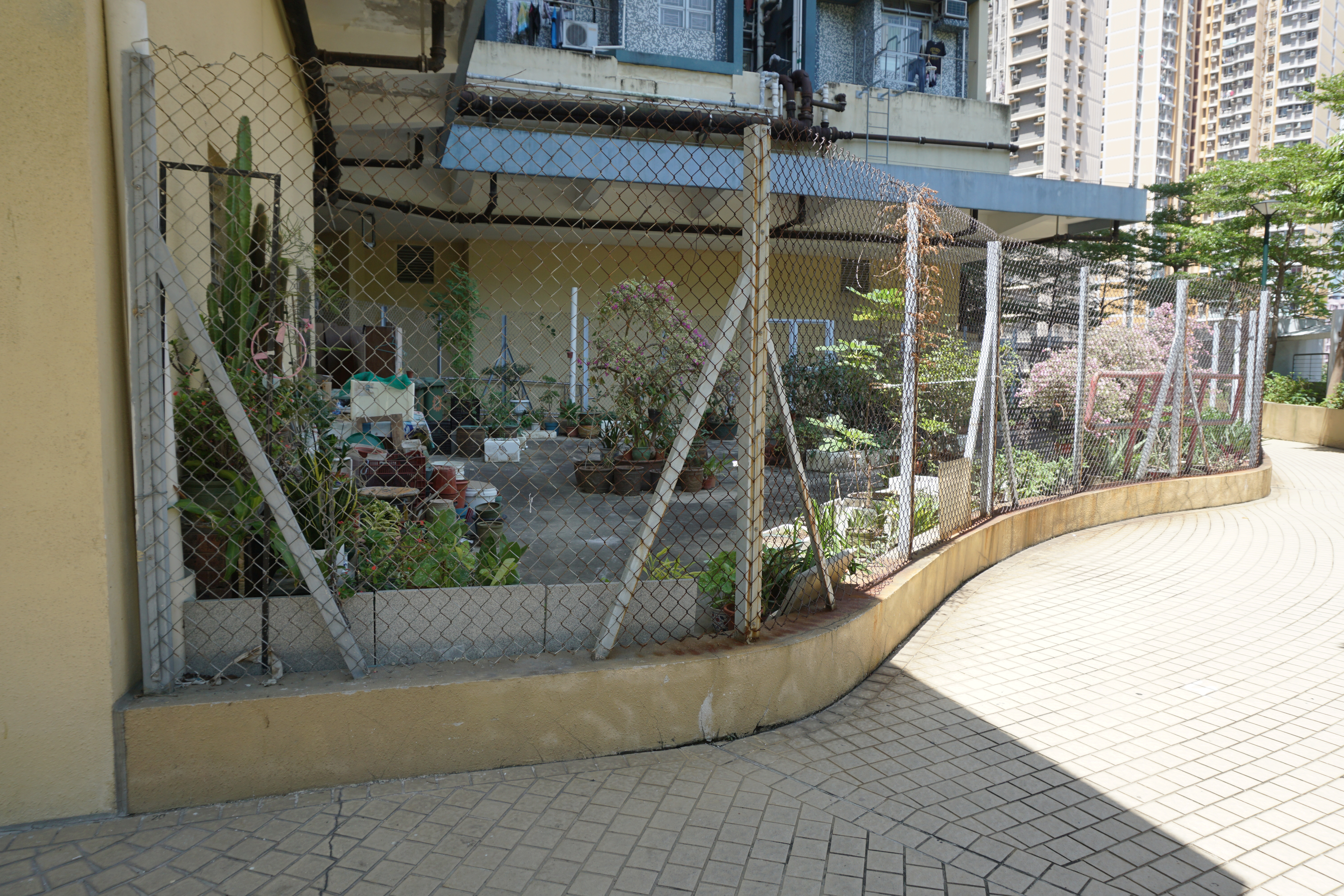 Kwai Chung Estate in Kwai Chung, Hong Kong.